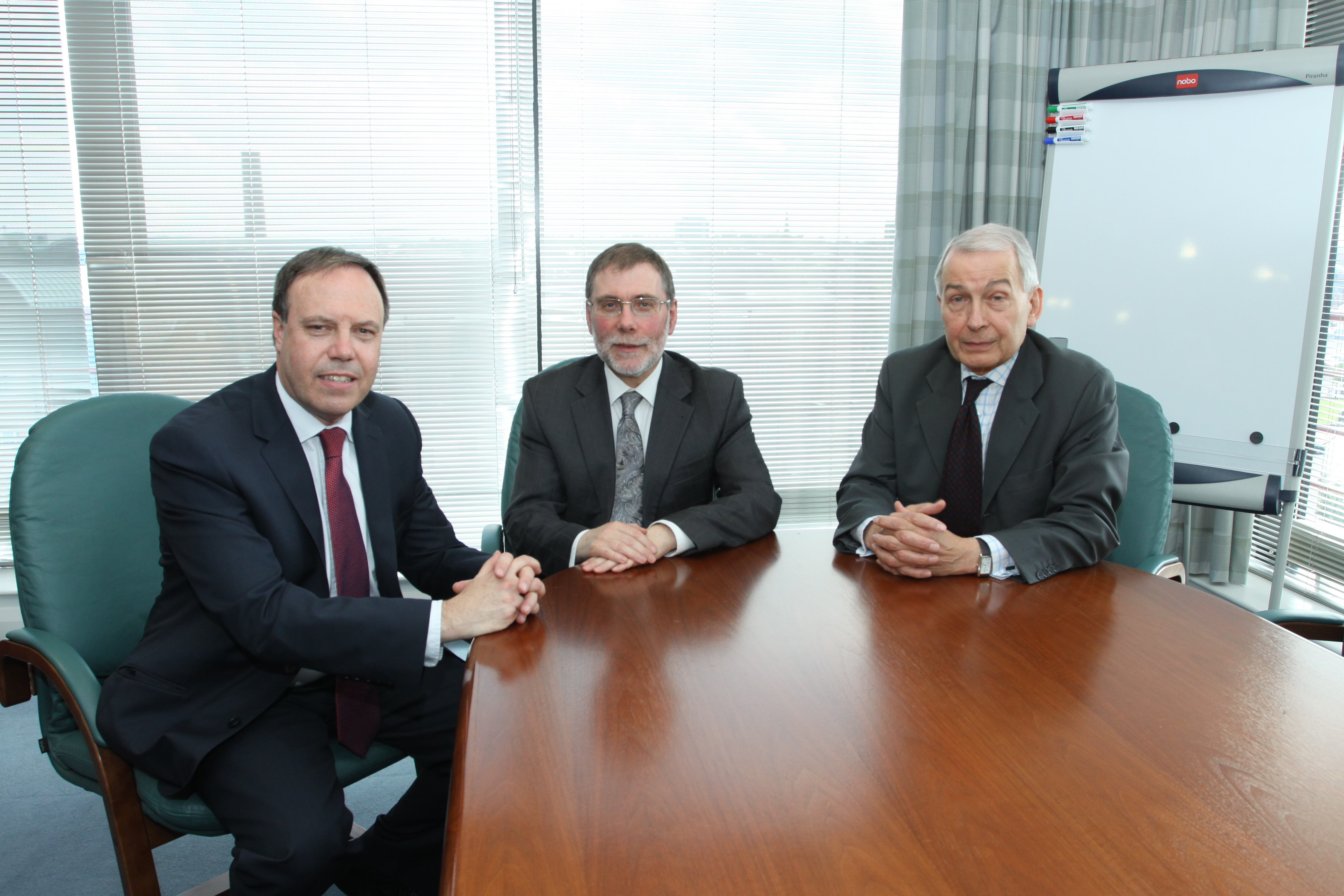 Minister for Social Development, Nelson McCausland has hosted a visit from Frank Field MP in conjunction with Nigel Dodds MP. The meeting was held to discuss the findings of Mr Field’s report ‘Foundation Years, preventing poor children becoming poor adults’, with a view to exploring the lessons for Northern Ireland. During the visit Mr Fields met with officials from several Executive departments, discussing current Executive programmes which contribute to addressing intergenerational poverty in Northern Ireland, including the approach to early years work and the anti-poverty work of DSD. The Minister said: “The reasons for social deprivation are highly complex, but addressing this need at a very young age is key to moving forward. These difficult economic times increase the imperative for us to address this very important issue and my officials, and those of our partner departments, continue to work on addressing these key issues. “I am committed to ensuring that my Department, with its mission ’together, tackling disadvantage, building sustainable communities’ is leading the work to ensure we have a focused way forward that gets to the heart of this challenging agenda and makes a difference to the most vulnerable in our society.”